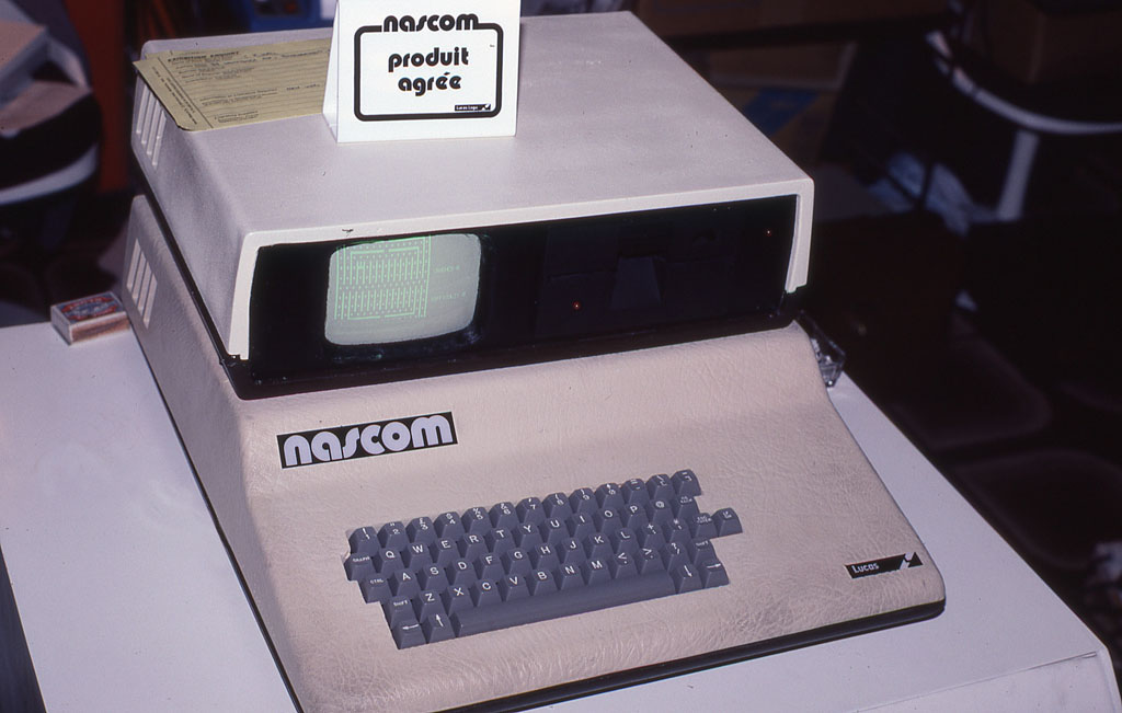 A Nascom 2 Z-80 based personal computer on display at the Fourth Annual Personal Computer World Show in London in September 1981. This was my description of the Nascom 2 written after the show. "Nascom ran into cash flow problems and was acquired by Lucas Electronics, a multinational. They produce an interesting Z80 computer, for sale just as a main board without a bus. They sell modules that can be added. A little box with floppy disks and controller board is available and the CRT sits on top. They sell all the basic kit parts for as little as 125£. Other things like 10 boards, disc controllers, memory and software may be purchased and added separately." From a Ektachrome 35 mm transparency taken with a Yashica TL Electro SLR camera. Scanned with an Epson Perfection V500 Photo.